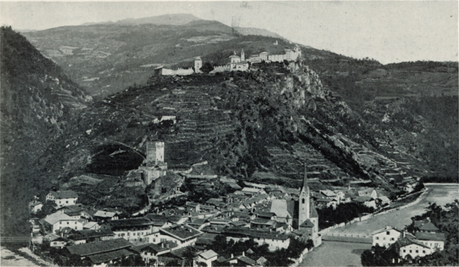 The town of Klausen in Southern Tyrol around 1898